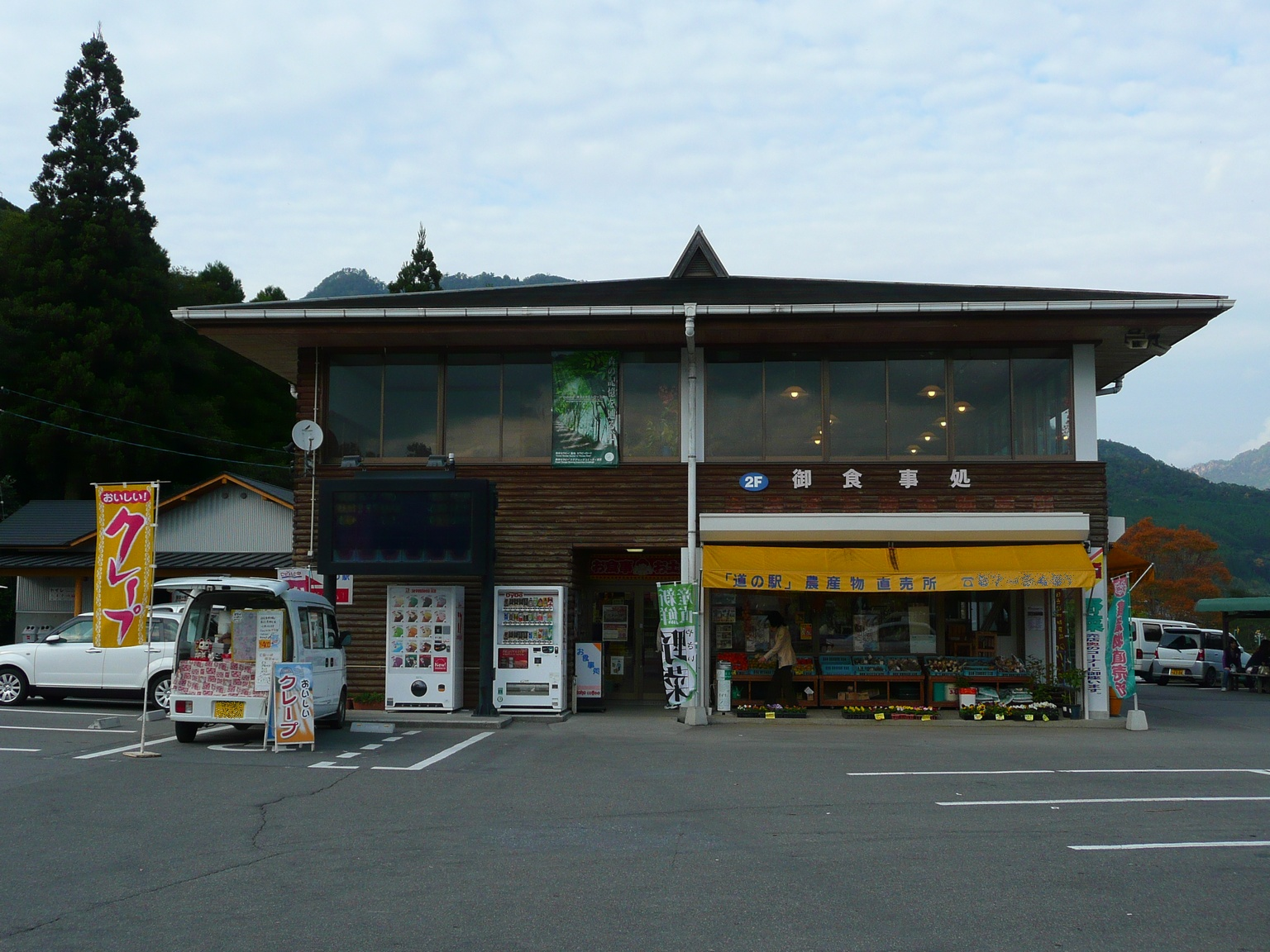 Michinoeki Seiun Bridge in 2009 (Hinokage Town, Miyazaki, Japan)